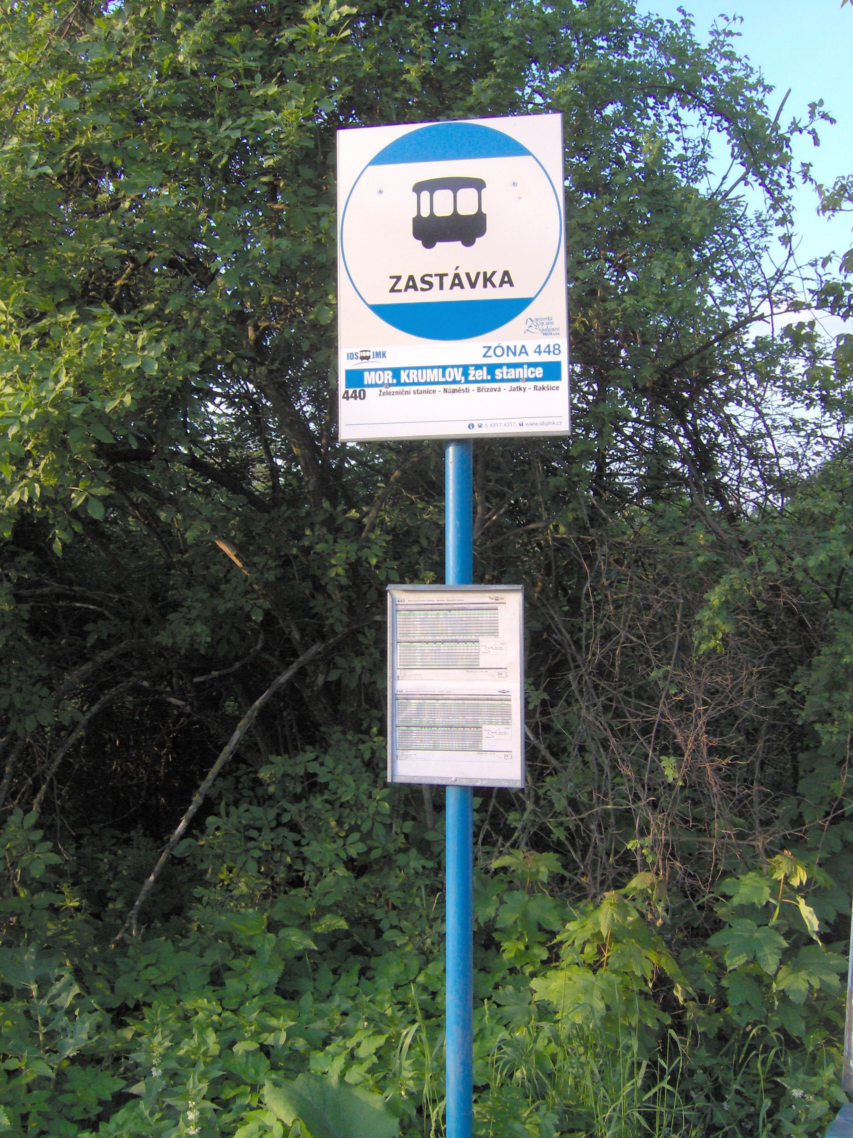 Bus stop sign in front of Moravský Krumlov train station, Znojmo District, Czech Republic